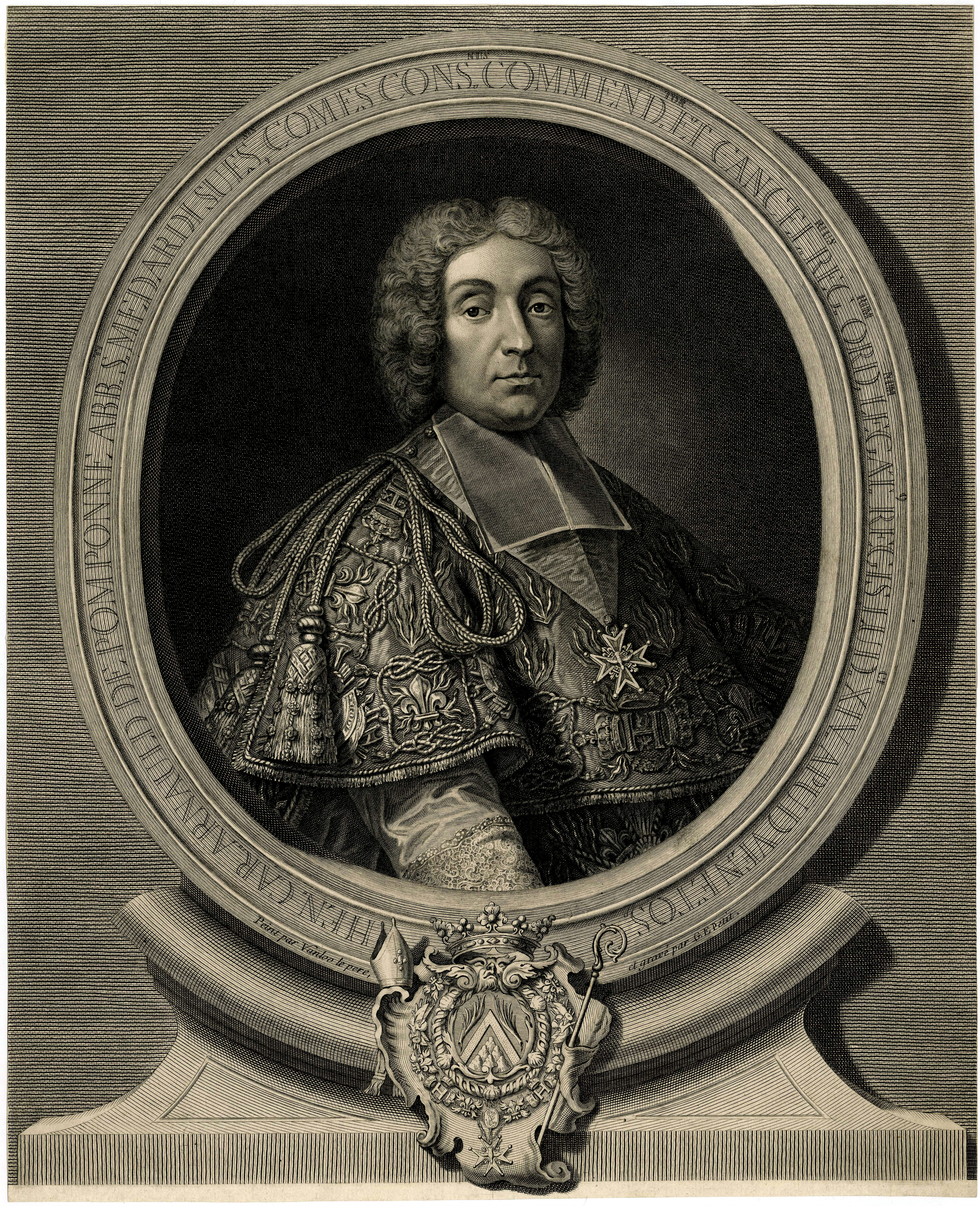 Portrait of Henri Charles Arnauld de Pomponne (1669-1756), abbé de Pomponne, French Ambassador in Venice